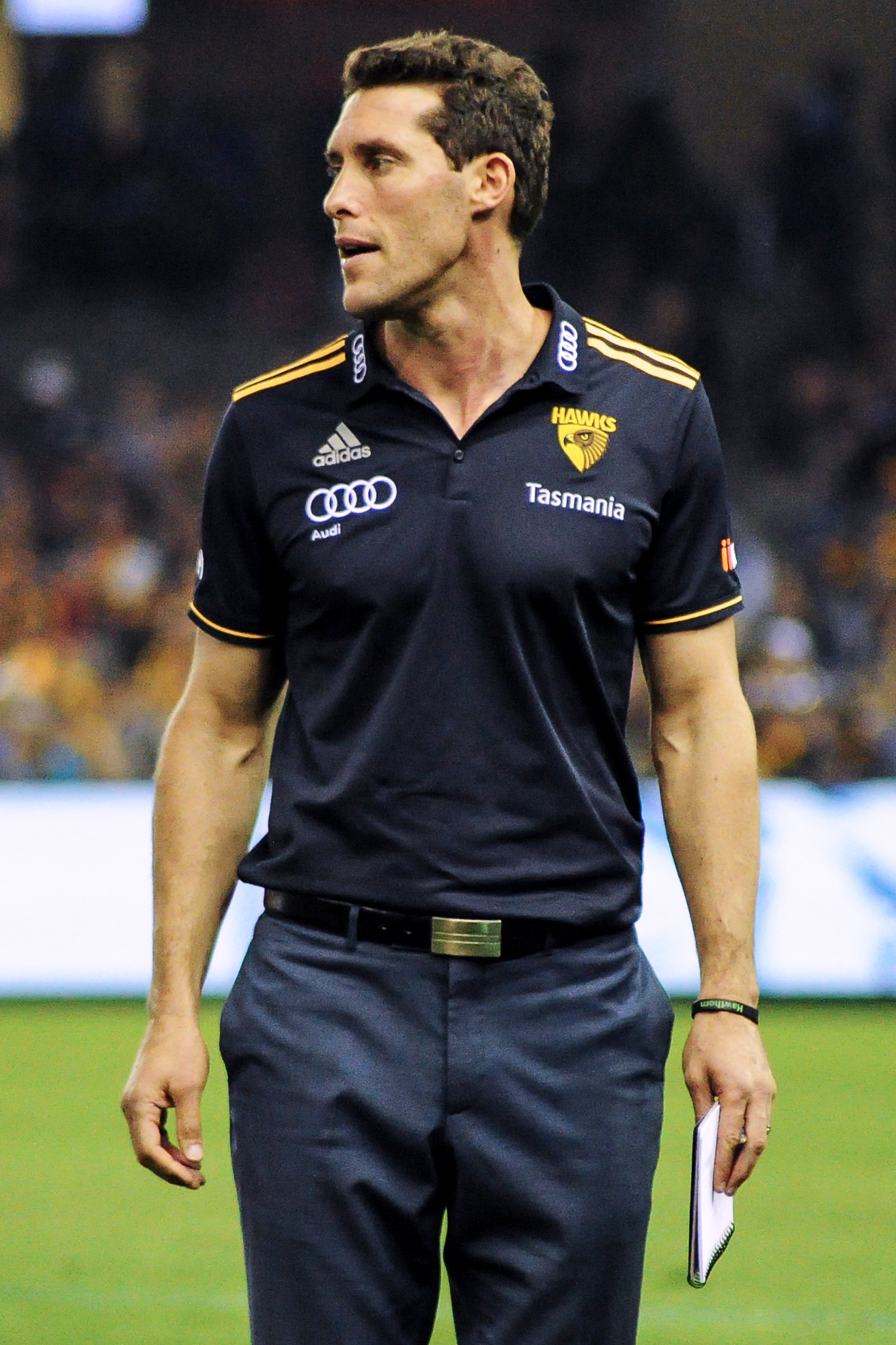 Darren Glass during the AFL round five match between North Melbourne and Hawthorn on Sunday, 22 April 2018 at Etihad Stadium in Melbourne, Victoria.